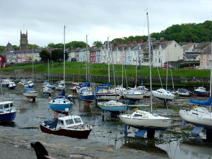 The harbour at Aberaeron. Taken by Aeronian on 26 May, 2007.